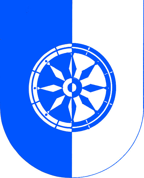 Municipal coat of arms of Podolí village, Uherské Hradiště District, Czech Republic.